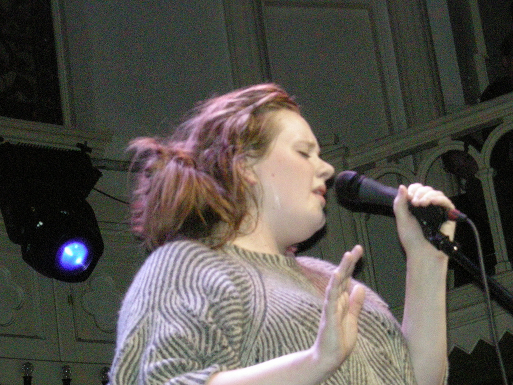 Adele - Paradiso Amsterdam 2008 Adele - Paradiso Amsterdam - July 14, 2008